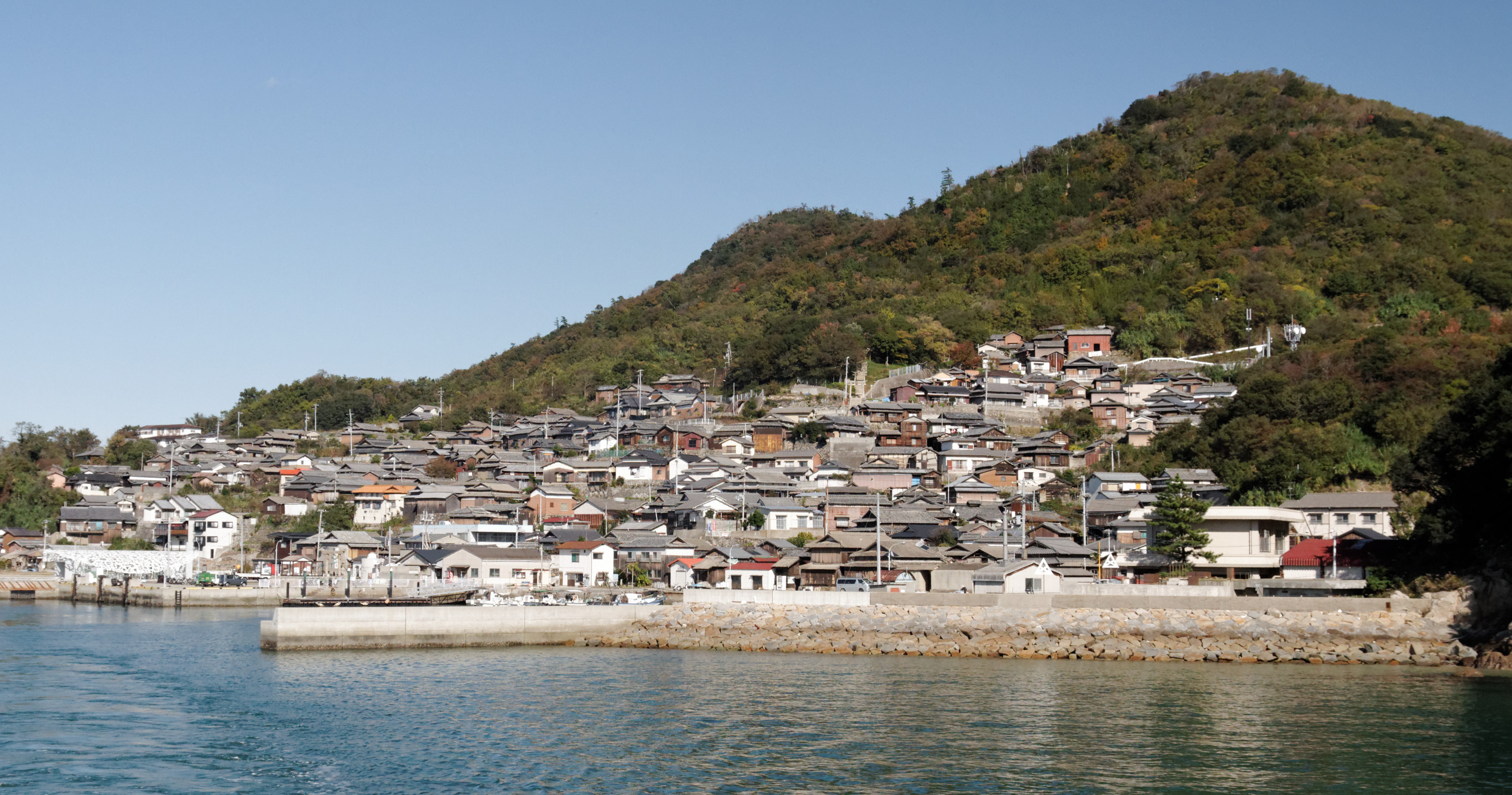 Ogijima - 男木島